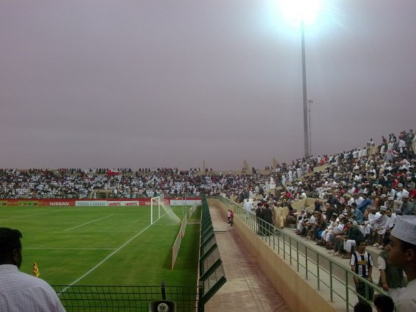 Photoshoot capturing the moment in the crowd half an hour before kickoff for the first match between Oman and Saudi Arabia in Salalah.